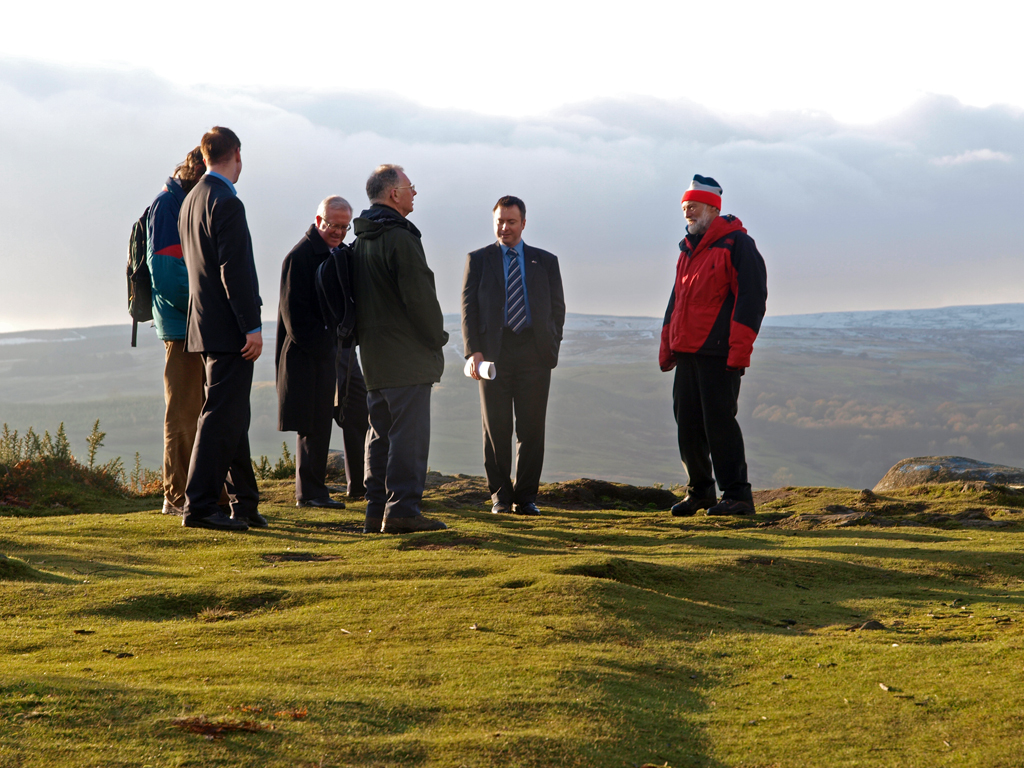 Site of Iron Age Hill Fort, Gillies Hill, Cambusbarron, Scotland